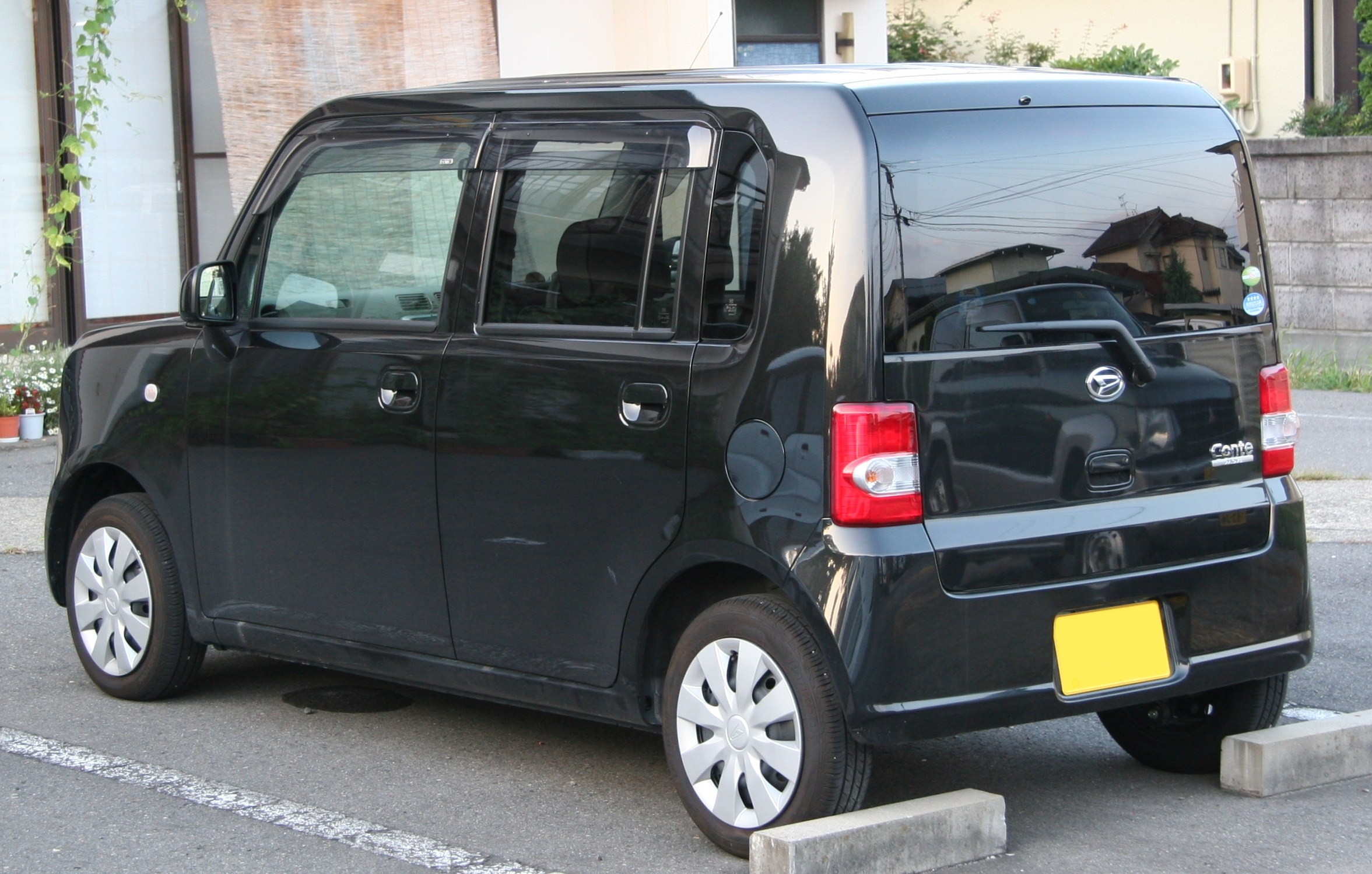 Daihatsu Move Conte